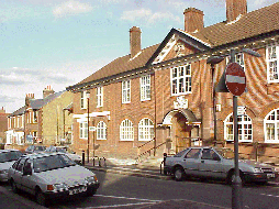 Bushey Museum, Bushey, exterior of the museum